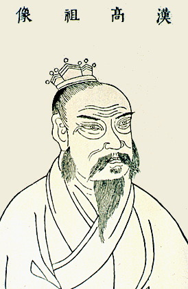 Emperor Gaozu of Han dynasty.